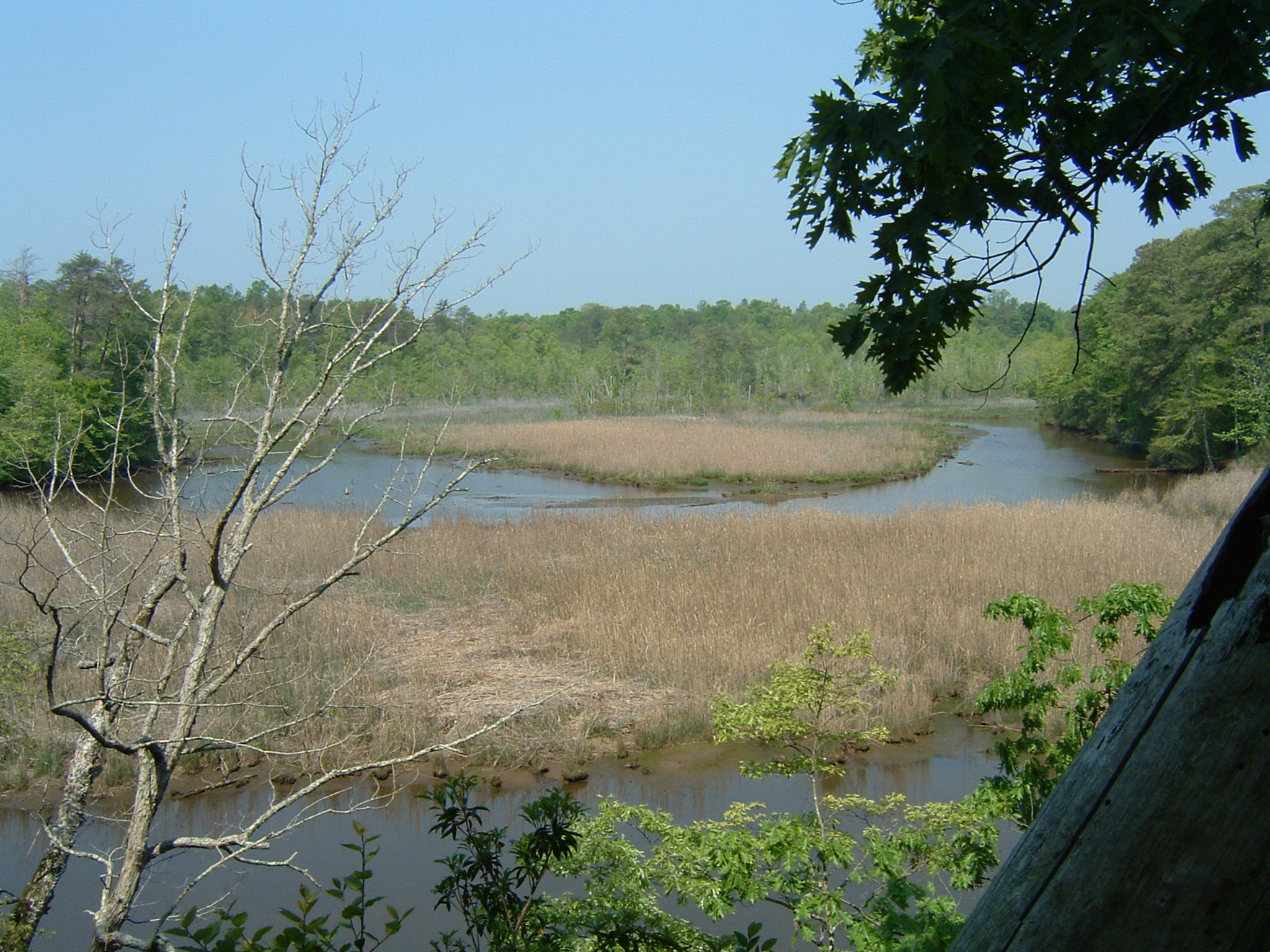 Bushmill Stream, as seen from the observation deck at Bushmill Stream Natural Area Preserve